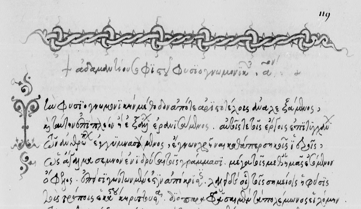 BNF_MS_Grec_193_f.119r_Adamantius, Physiognomonica: initium textus